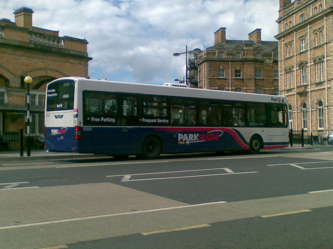 First York Park & Ride bus at York Station, taken April 2008, ac_1076